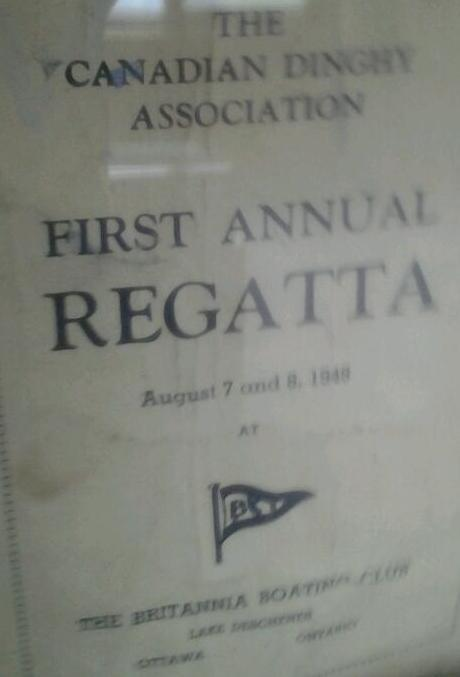 Britannia Yacht Club, Ottawa, Ontario 1st annual Canadian Dinghy Association Regatta 1948